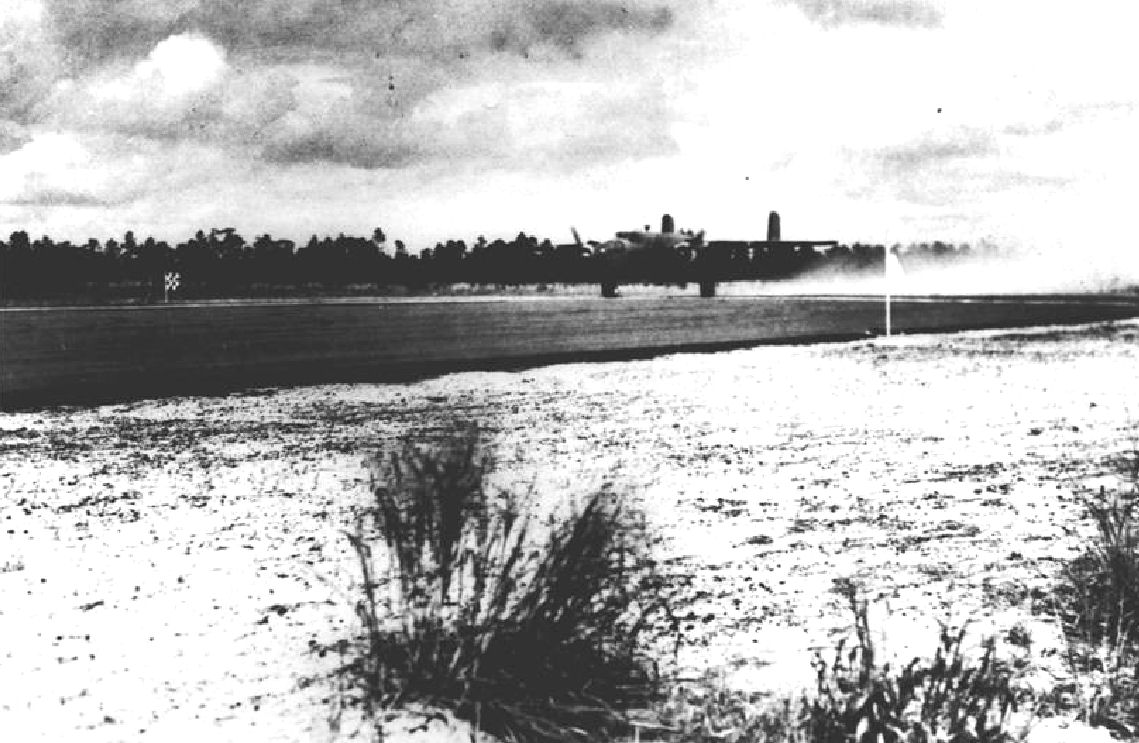 Doolittle Raiders learned to conduct carrierstyle short takeoffs at Wagner Field (Aux Field 1) and Duke Field (Aux Field #3), in preparation for their 18 Apr raid on Japan.